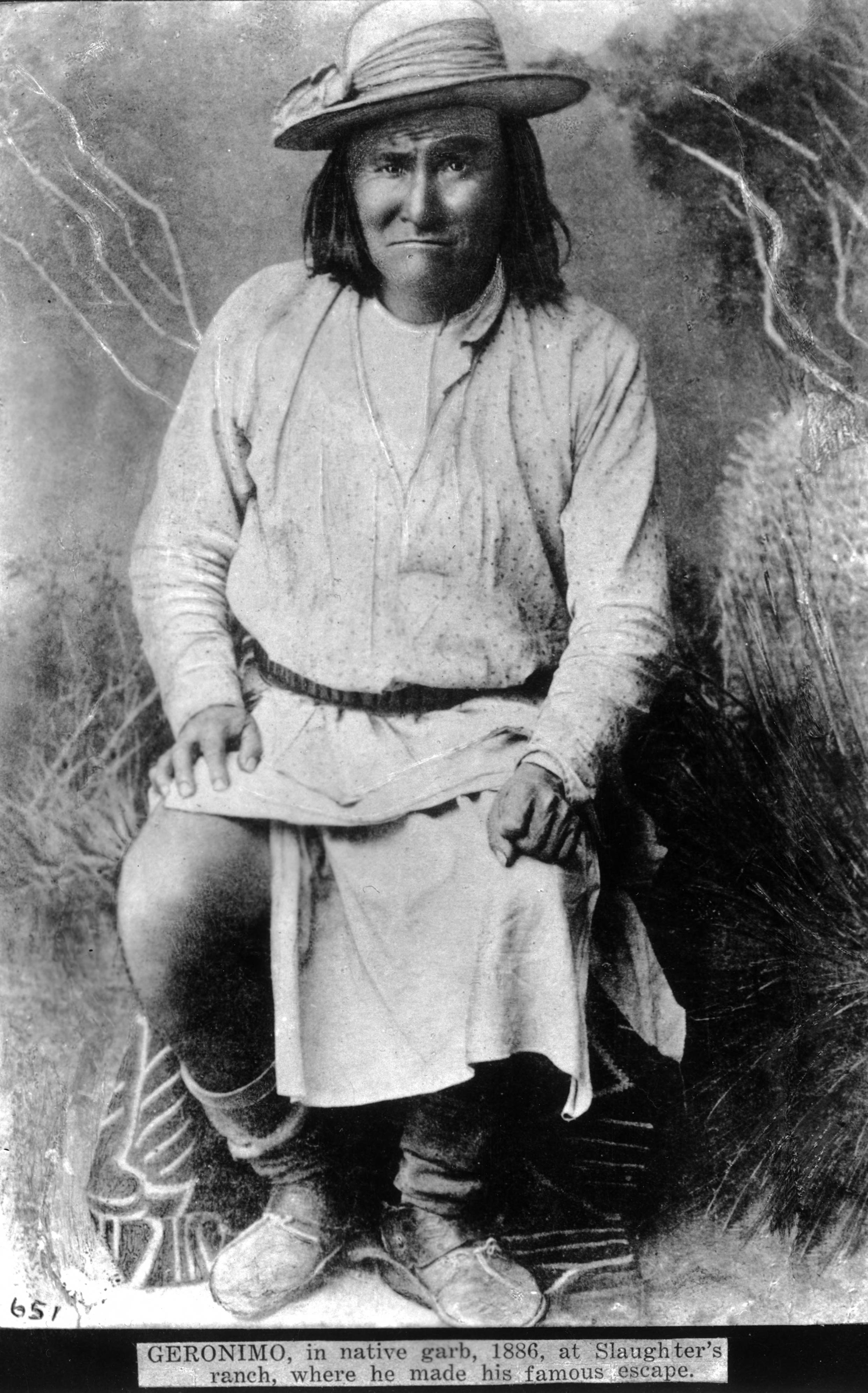 Studio portrait (sitting) of Geronimo, a Native American (Chiricahua Apache) man. He wears moccasin boots, a breechcloth, ammunition belt, and wide-brimmed hat.